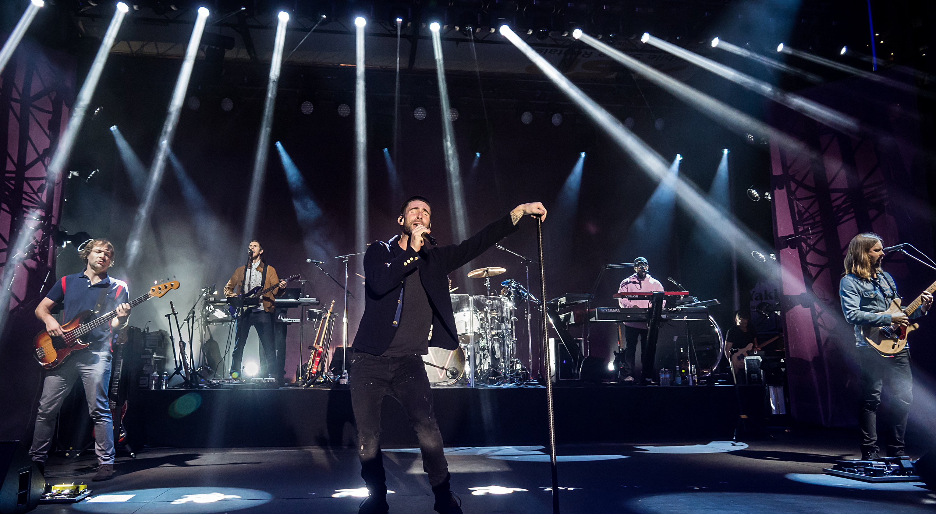 Maroon 5 at the Airbnb Open Spotlight